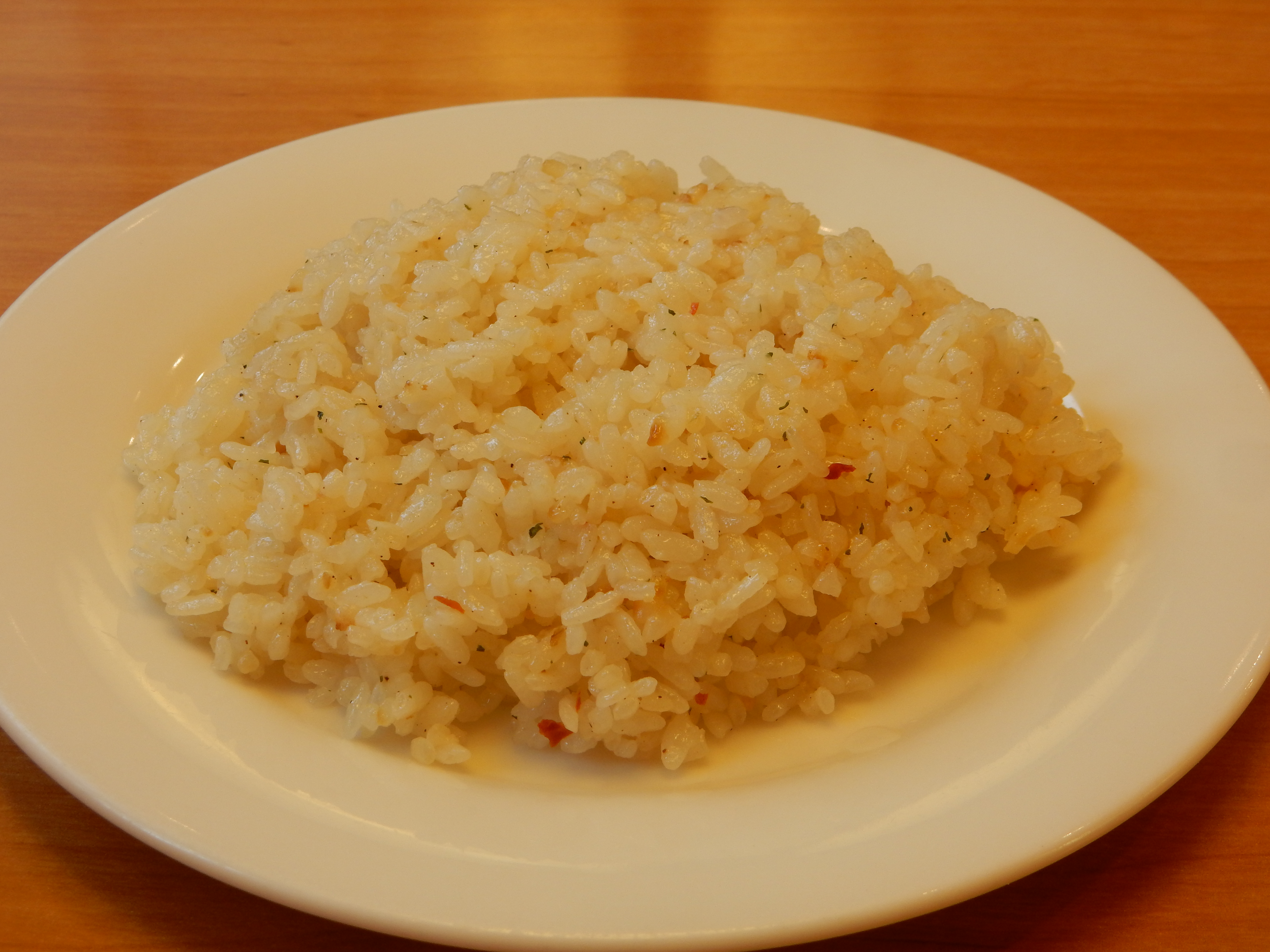 Garlic rice, at Steak Miya